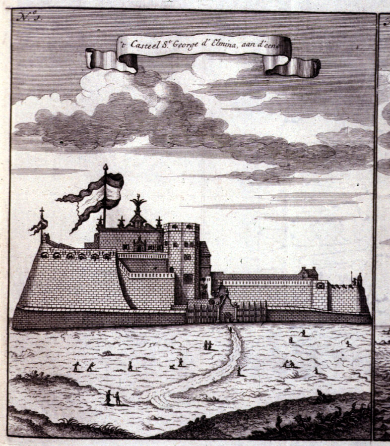 Castle of St. George d'Elmina in Ghana